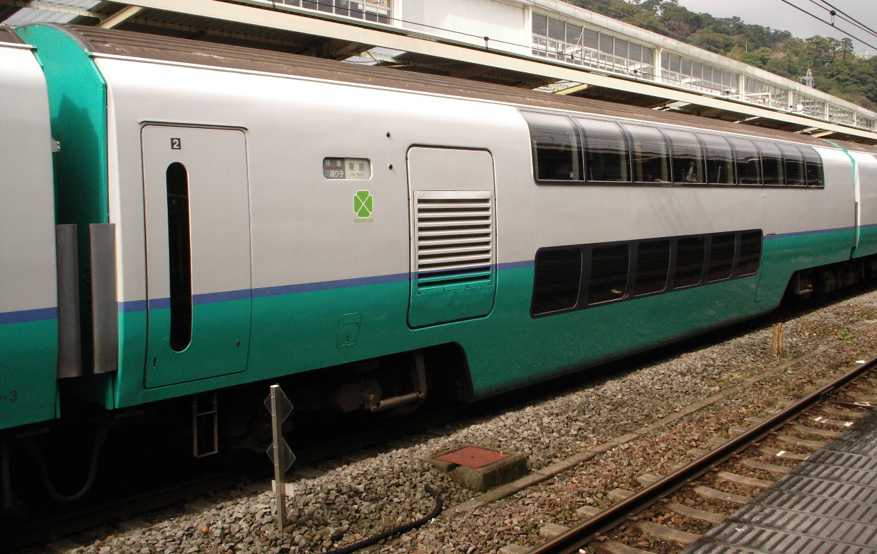 JR East 251 series EMU SaRo 251 double-deck Green Car (Car 2) at Atami Station